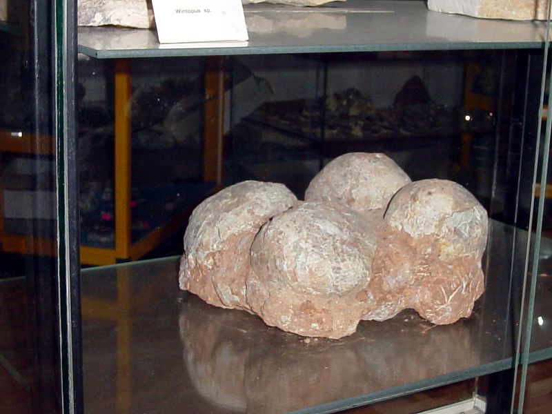 Eggs of dinosaur in Museum of Earth in Kletno (Lower Silesia, Poland)